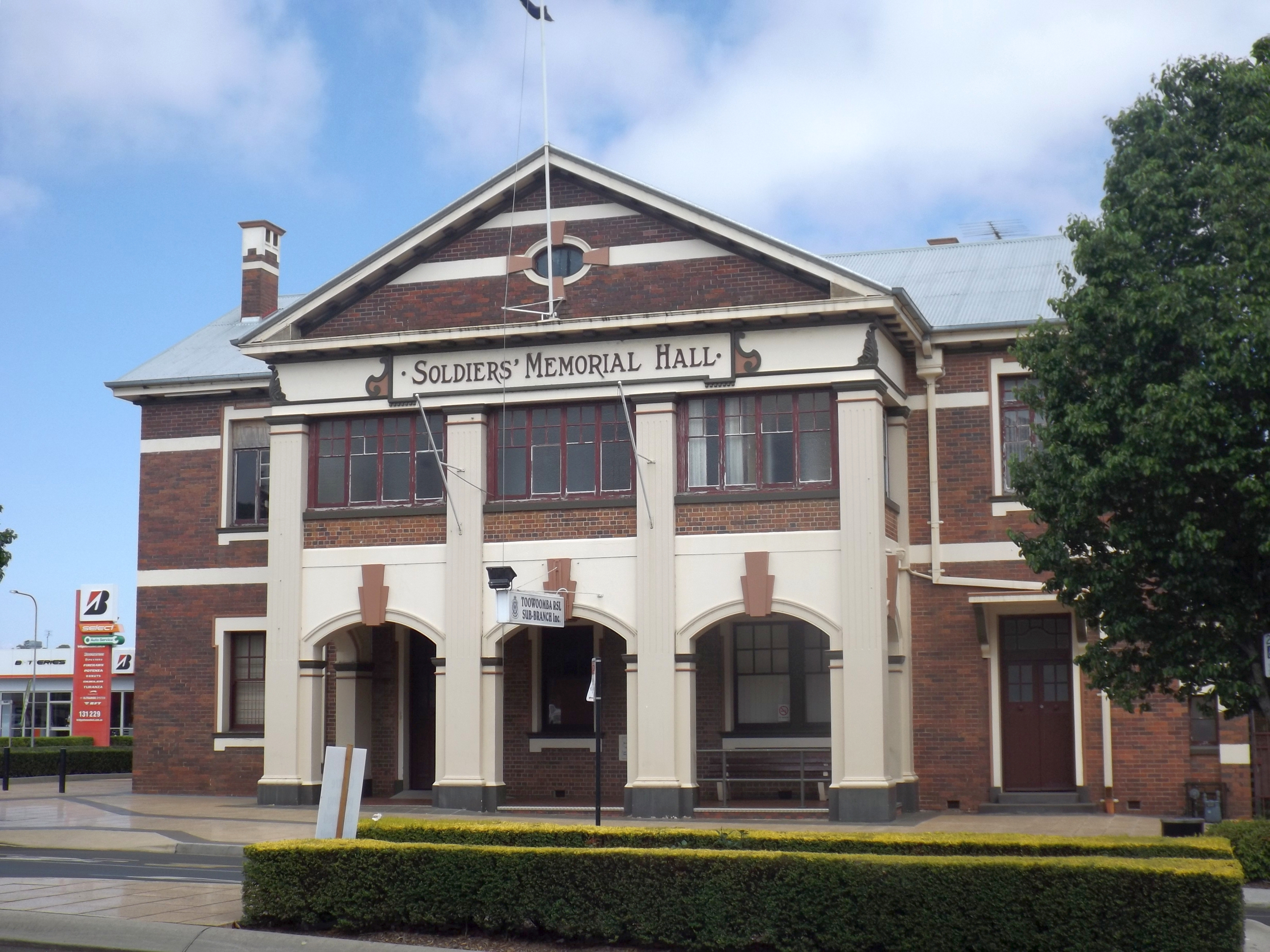 Photo of Soldiers Memorial Hall in Toowoomba City, Queensland, Australia.